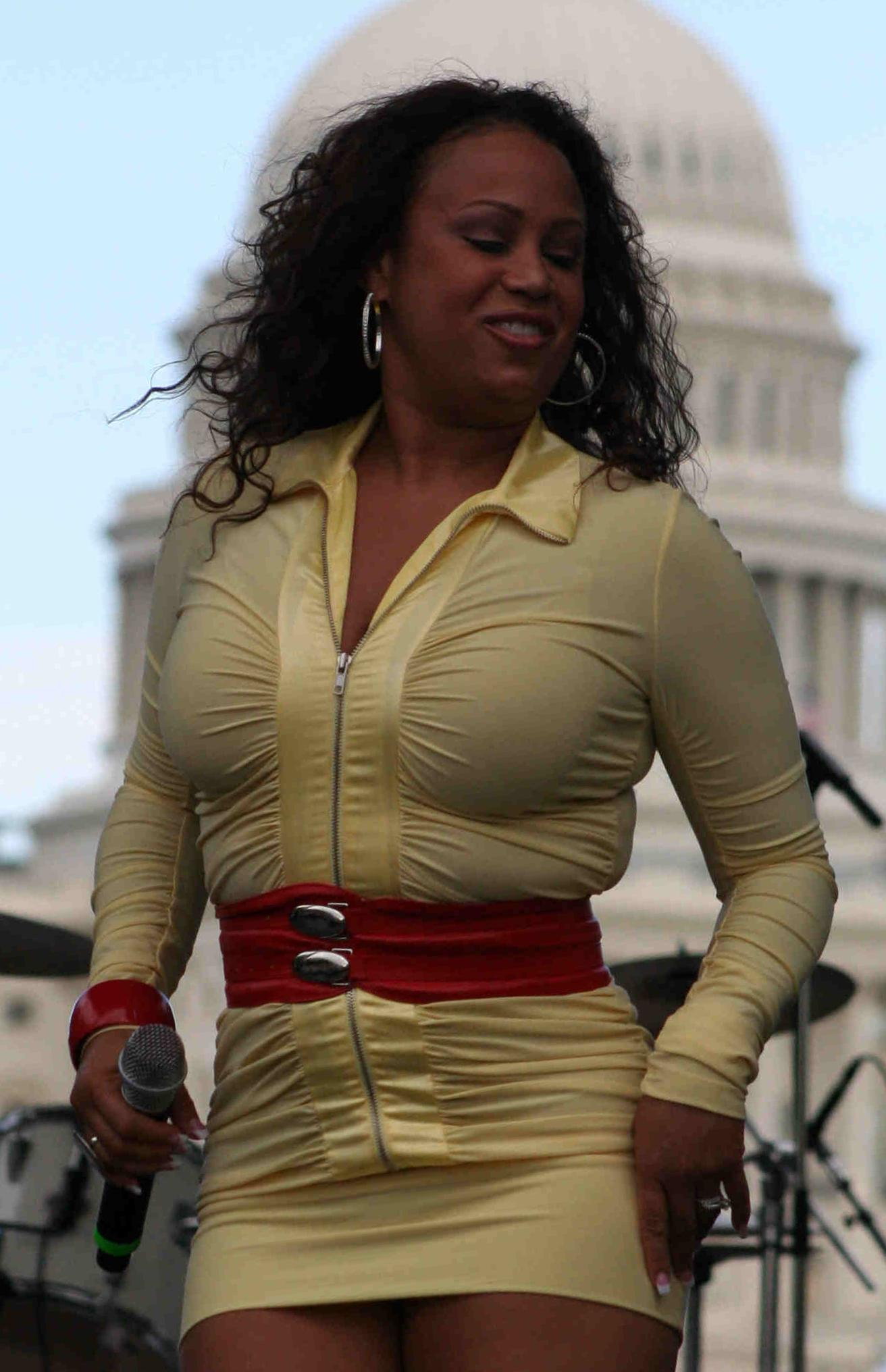 Peniston performing live at the Capital Pride Festival on the Pennsylvania Avenue and 3rd Street in Washington, D.C., on June 11, 2006